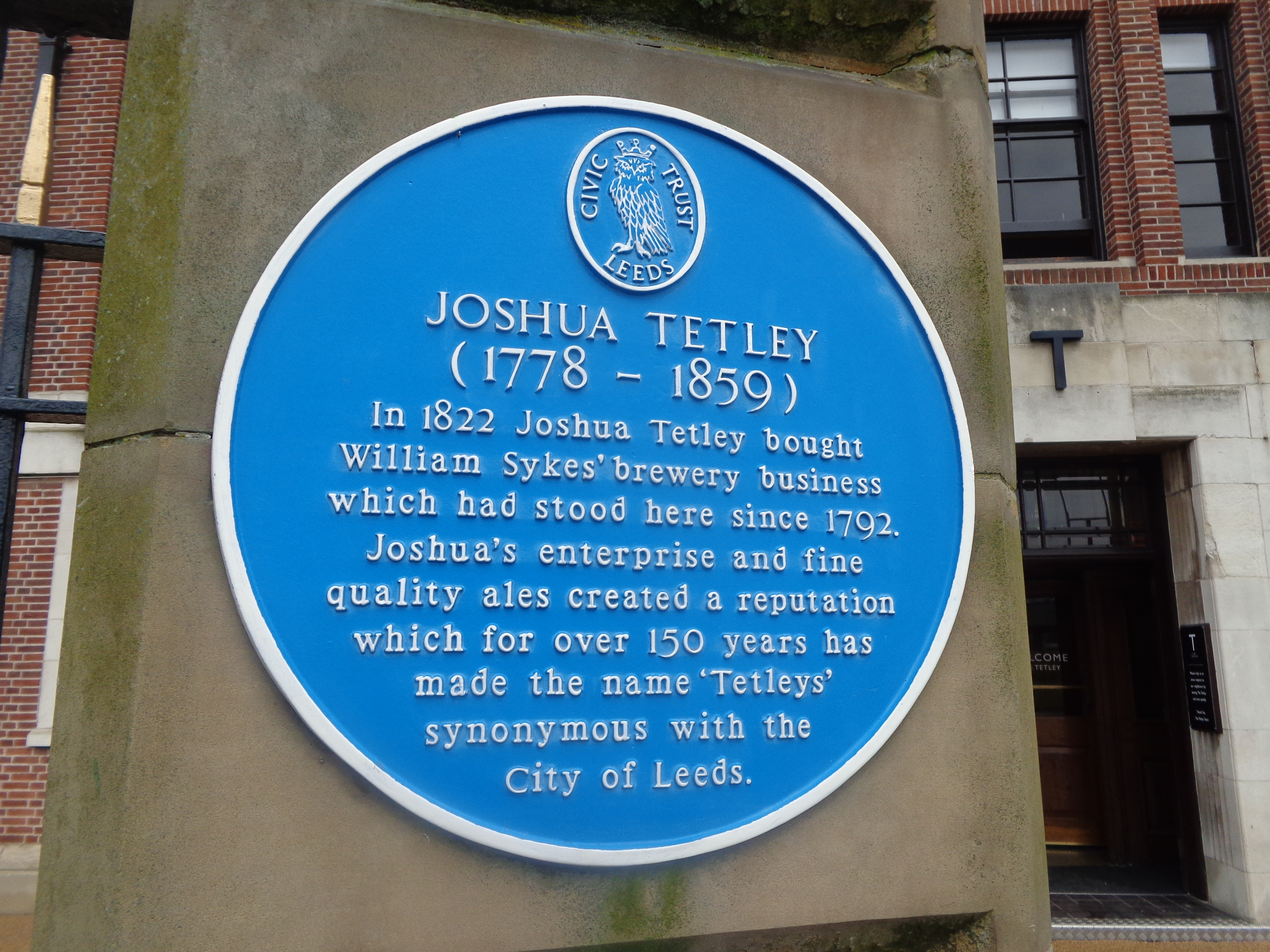 A blue plaque recognising the former brewery (closed 2011) outside the Tetley, Leeds, West Yorkshire. Taken on the afternoon of Saturday the 19th of July 2014.